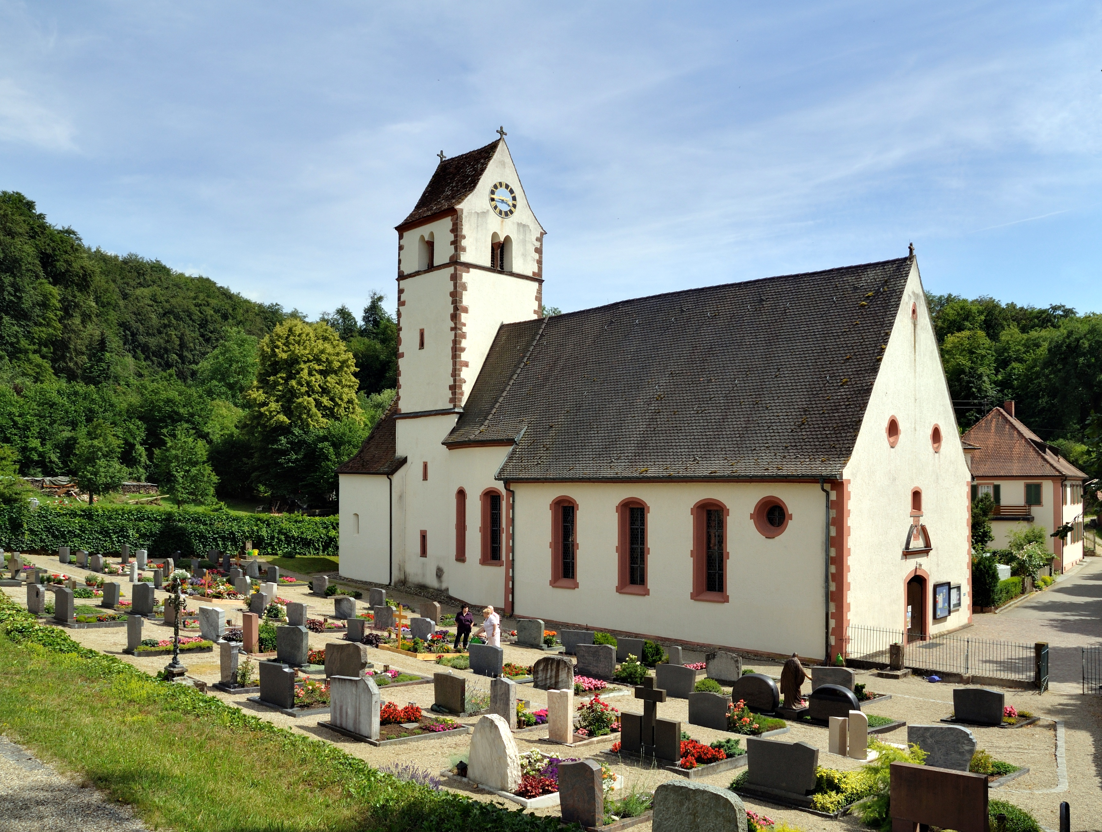 Liel: Saint Vinzenz Church